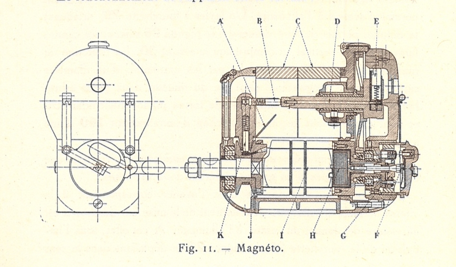 Fig. 11 Magneto Manual for the Renault 8 Bd engine See other images from this source in 'Renault 190HP aircraft engine manual'